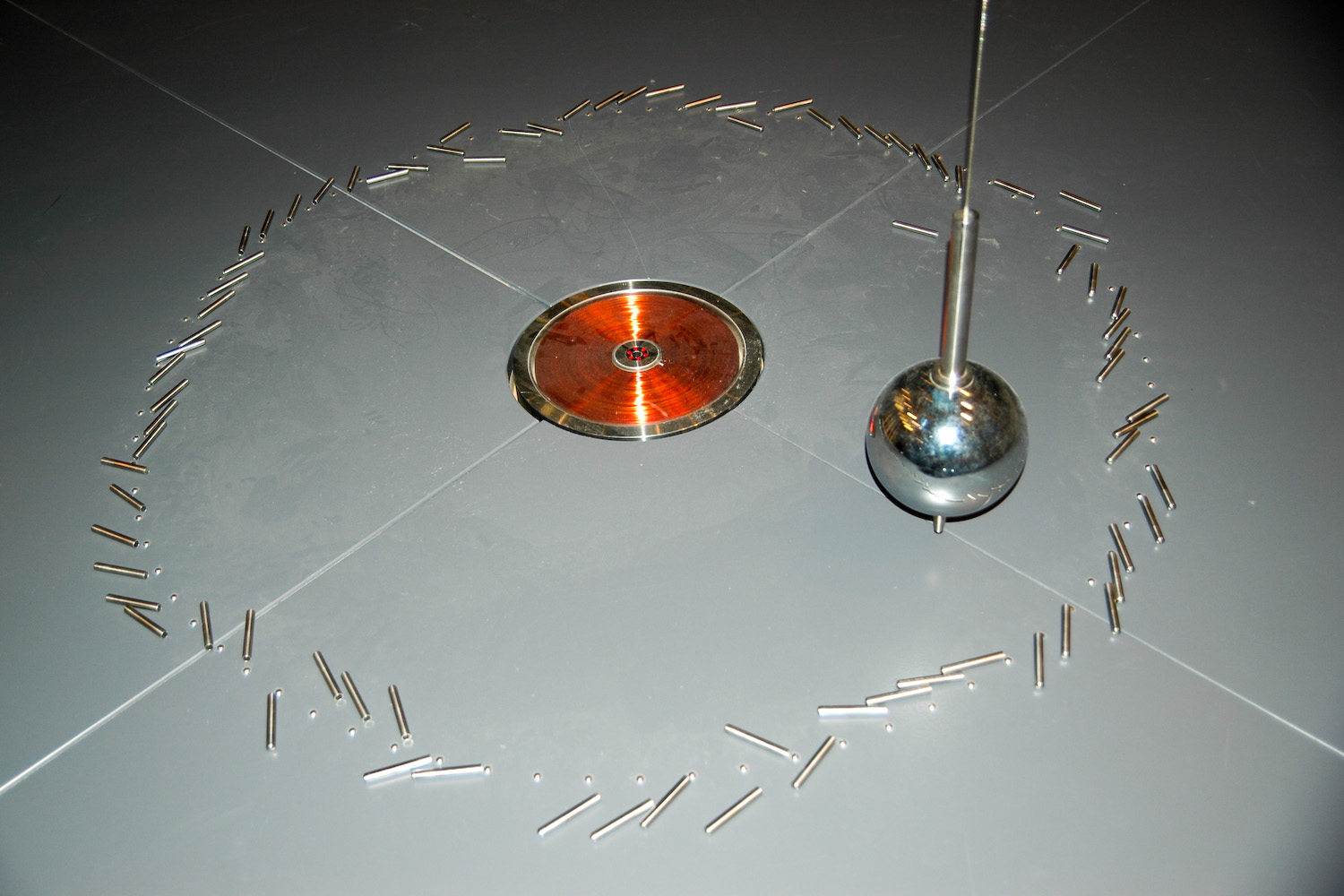 Foucault's pendulum in Realfagbygget at NTNU, Trondheim, Norway. Pegs are placed around and are knocked down as the pendulum turns.